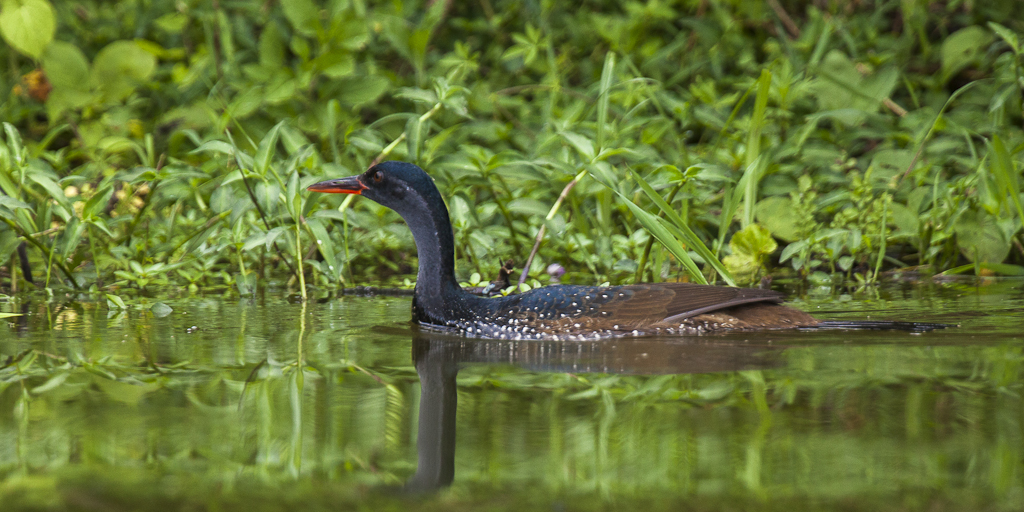 African Finfoot - Lake Mburu - Uganda